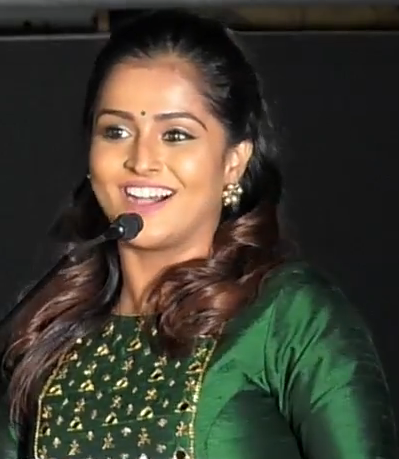 Remya nambeesan at Natpuna Ennanu Theriyuma Audio launch event in 2018.